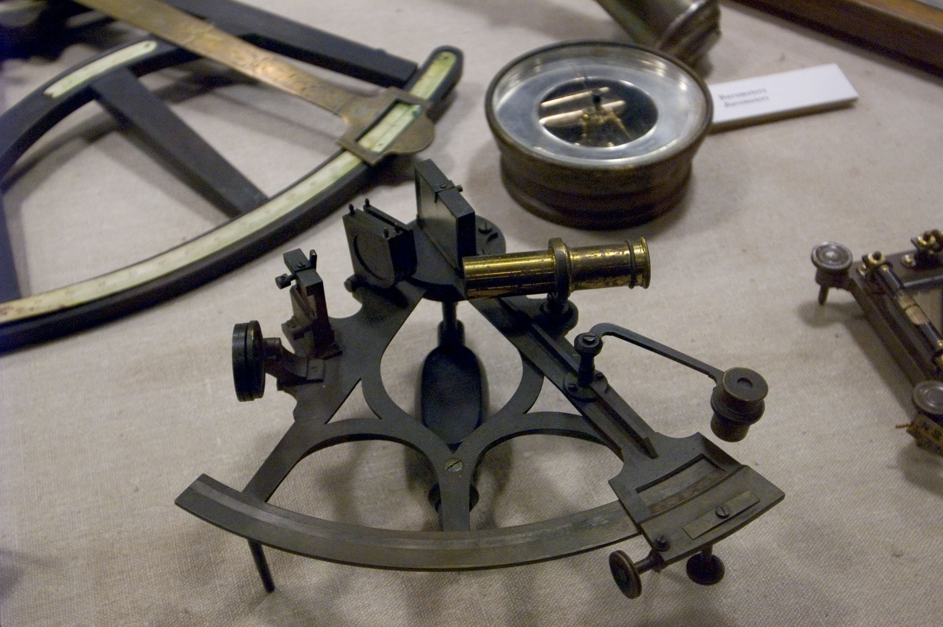 Sextant, compas et octant. Sjøfart Museum, Oslo, Norway. Author: Fanny Schertzer